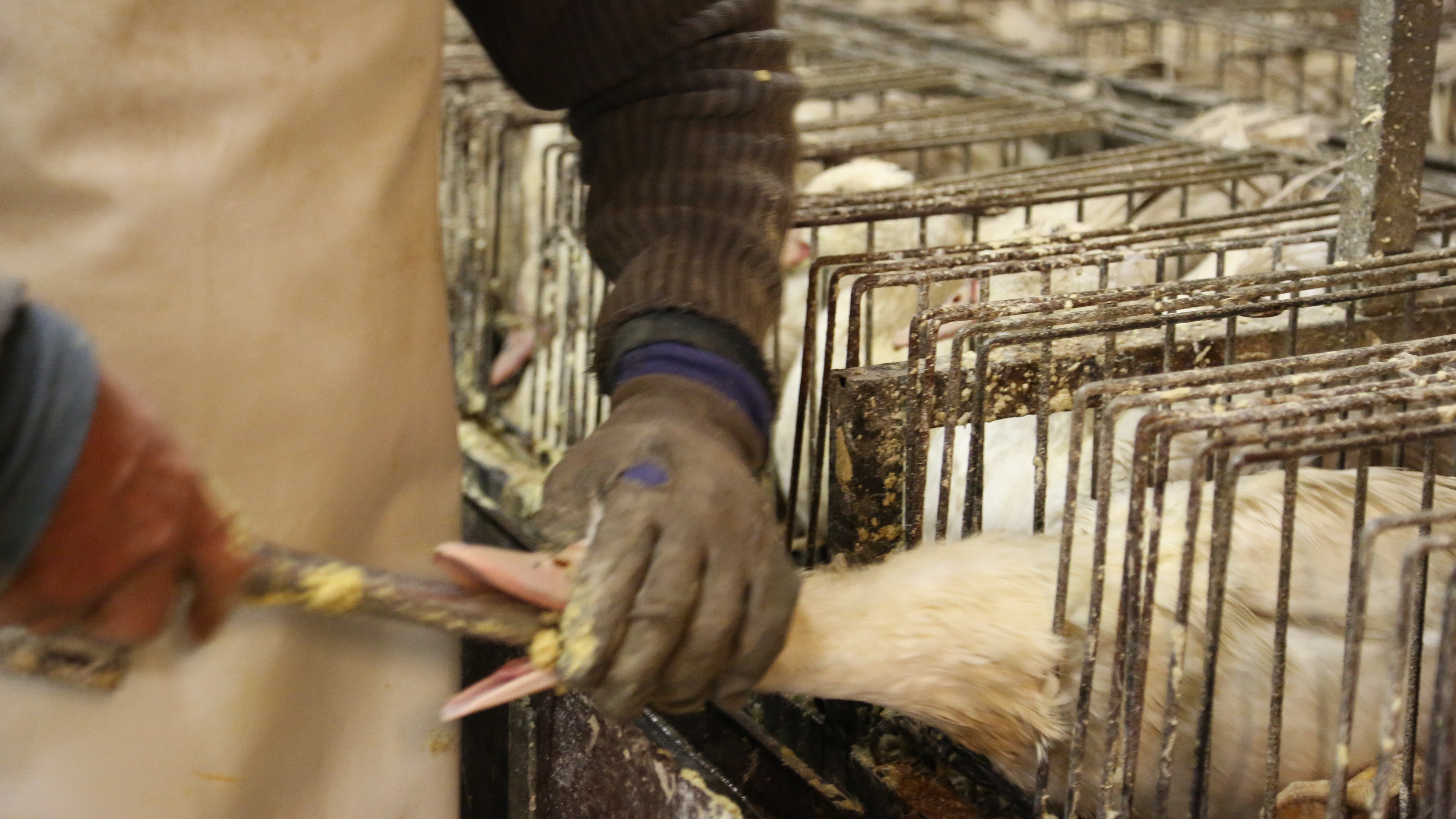 Fattening of ducks in single cages with force-feeding for the production of fatty liver ("foie gras") in France in 2012.